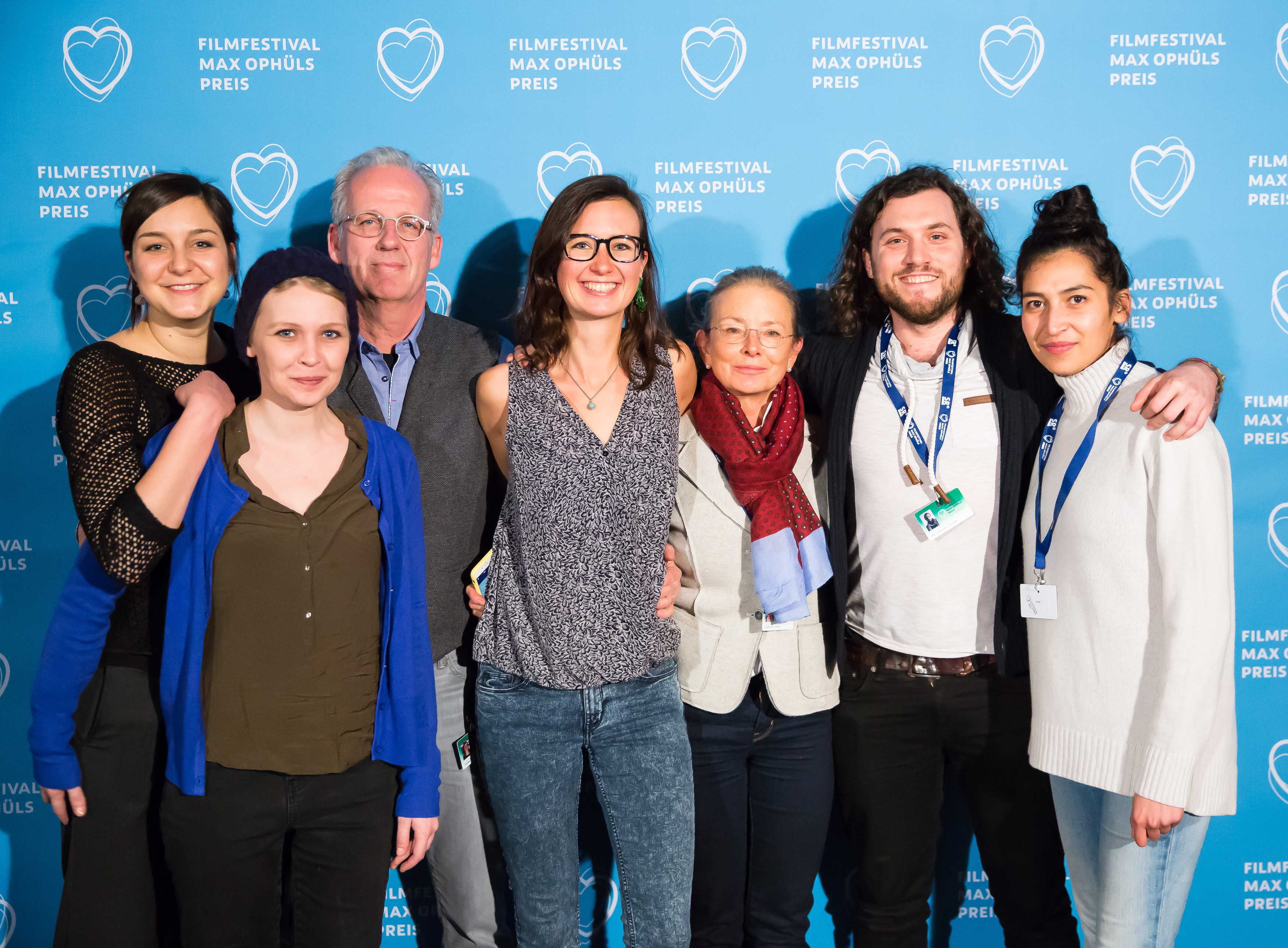 38. Filmfestival Max Ophüls Preis - ER SIE ICH Regie CARLOTTA KITTEL